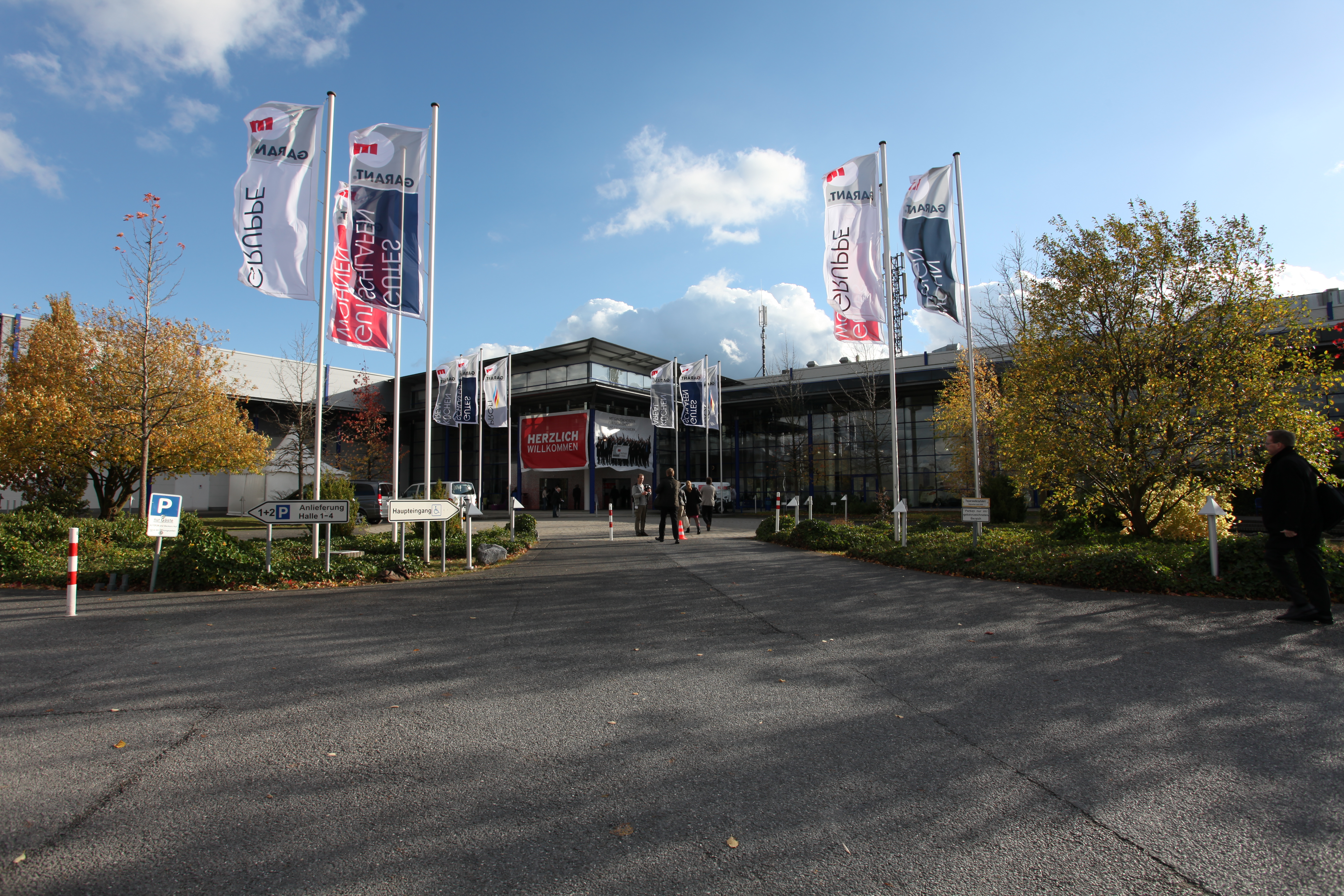 Main entrance of the exhibition centre A2 Forum in Rheda-Wiedenbrück